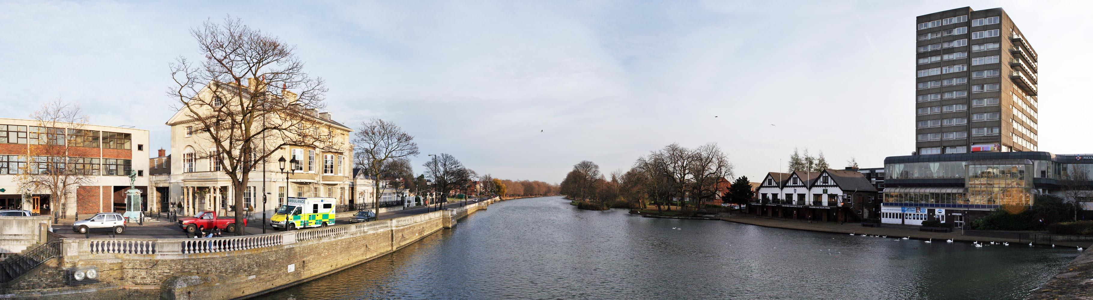 River Great Ouse in Bedford from Town Bridge, looking downstream. The old Coaching Inn, the Swan Hotel is on the left behind the tree. Bedford Rowing Club and the multistorey Bedford Park Inn are on the right. i took this photo - unsure why it has previously been deleted - no message, and no record that i can find... i'll keep digging, but let me know before deleting - it's rude not to.